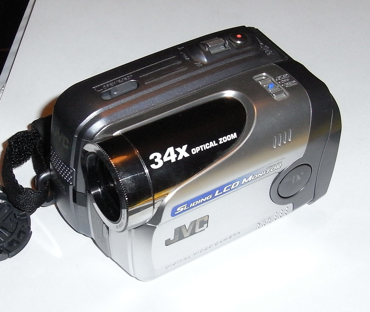 JVC Digitalkamera GR DA20